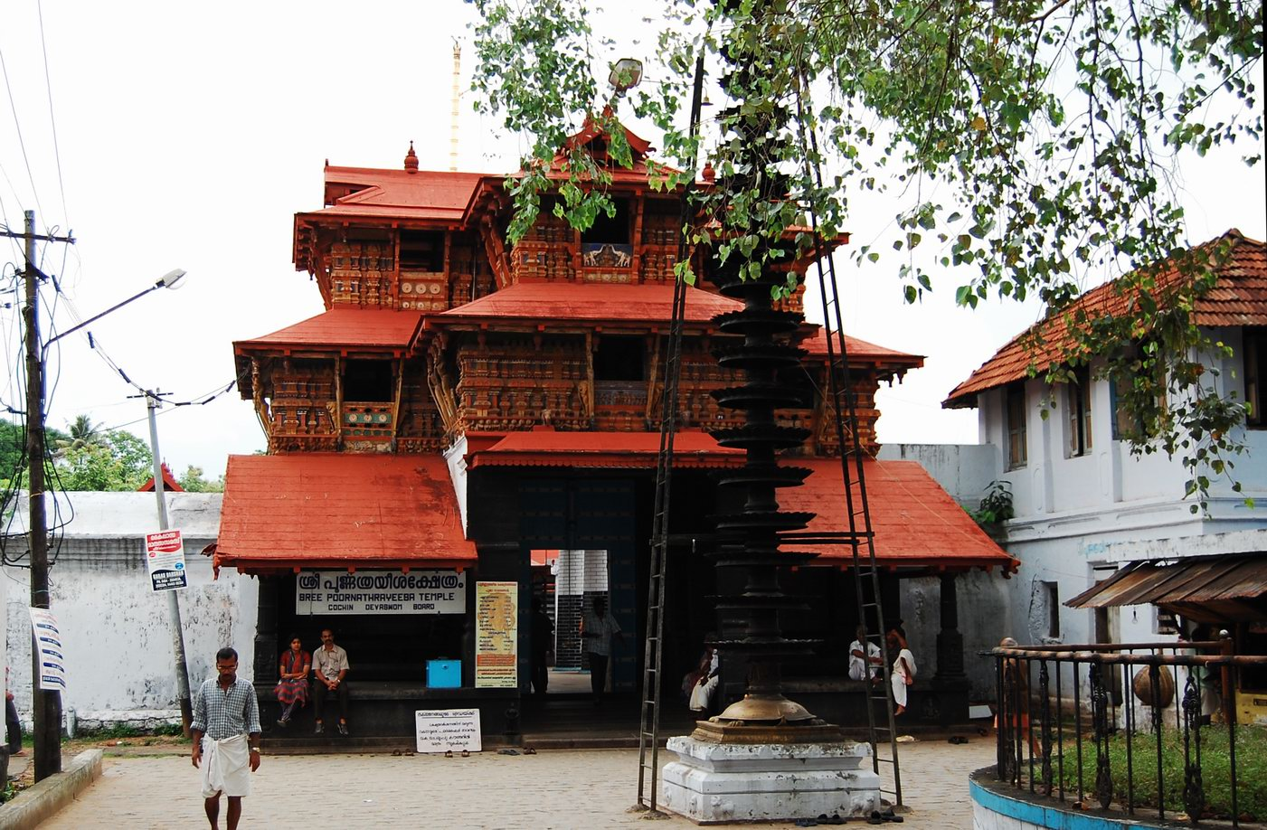 Sree Poornathrayesa Temple, Tripunithura, Kochi, India.